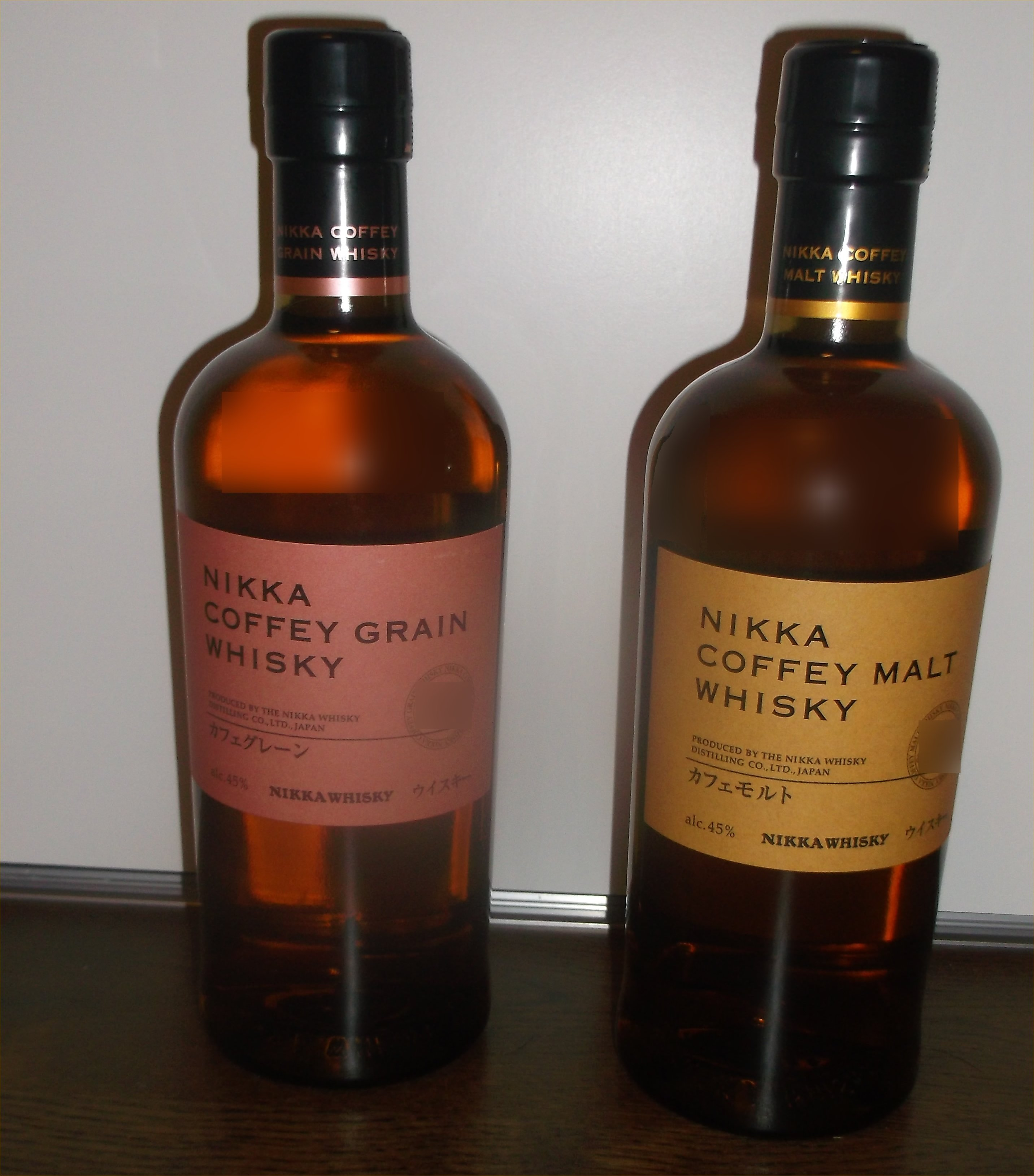 A photo of "Nikka Coffey Grain Whisky"(left) and "Nikka Coffey Malt Whisky"(right) (Japanese whiskies produced by Nikka Whisky Distilling)